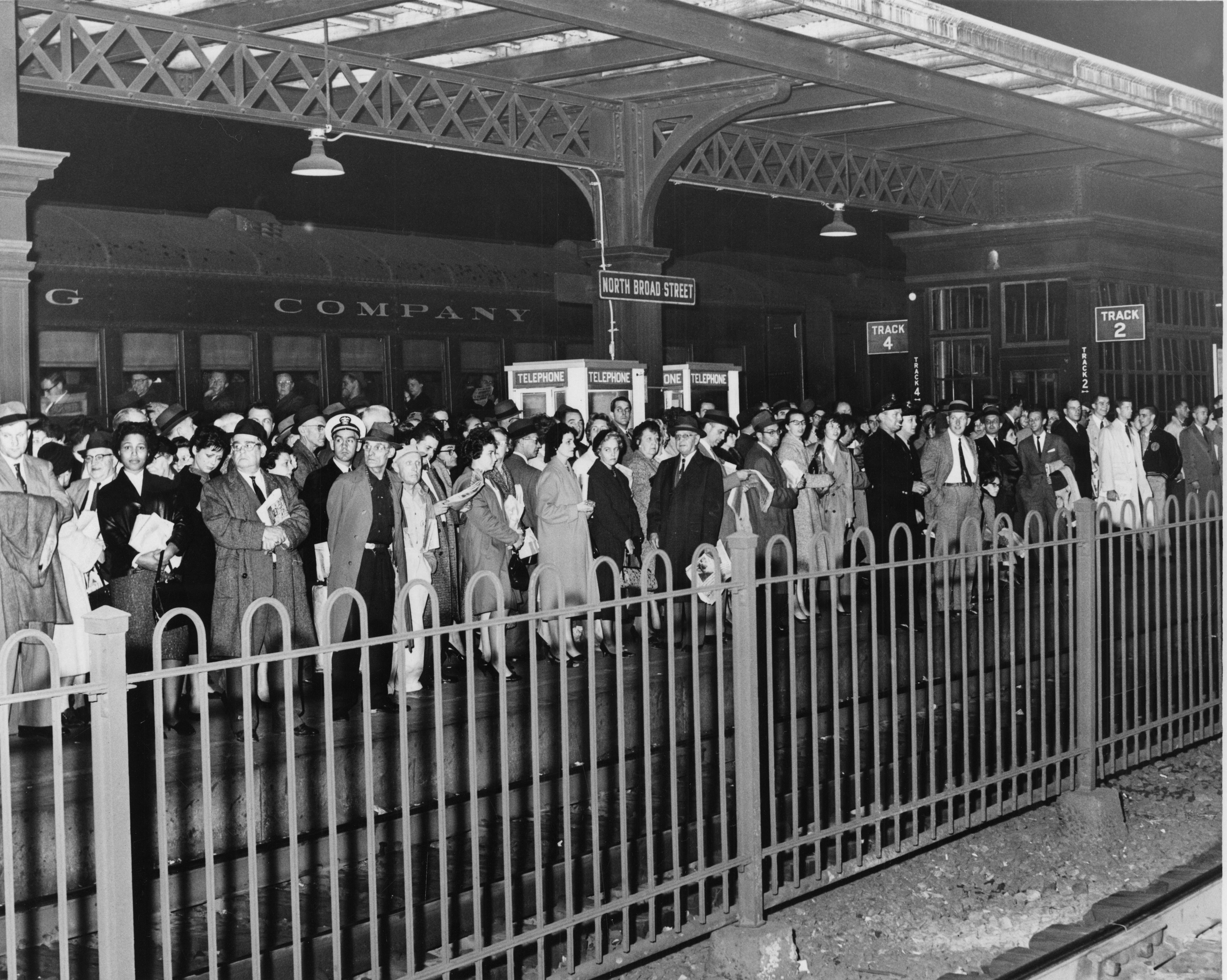 Commtuers crowd the platform at North Broad Street station in November 1960. The Reading Terminal was closed by fire, forcing passengers to transfer from the Broad Street Subway at North Broad Street.